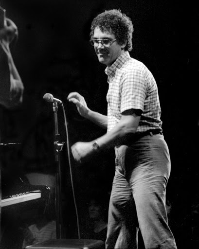 Claude Nobs, director of Montreux Jazz Festival, Switzerland. Claude Nobs introduces the Bill Evans Trio at Montreux Jazz Festival, July 12, 1978.